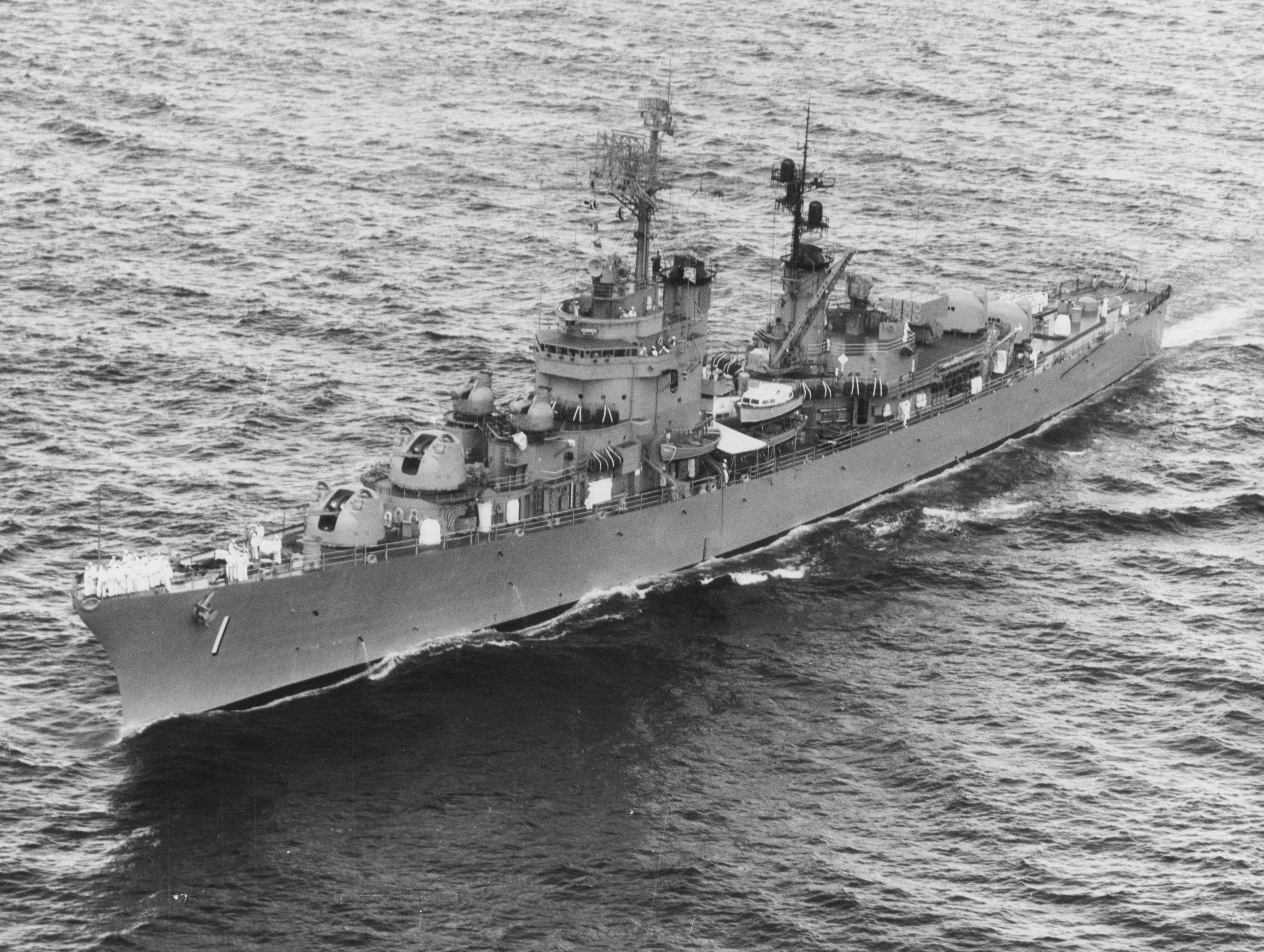 The U.S. Navy destroyer leader ("frigate") USS Norfolk (DL-1) underway in the mid-1960s. She featured the first ASROC launcher, added circa in 1960 and the SPS-37 radar, fitted circa in 1962.